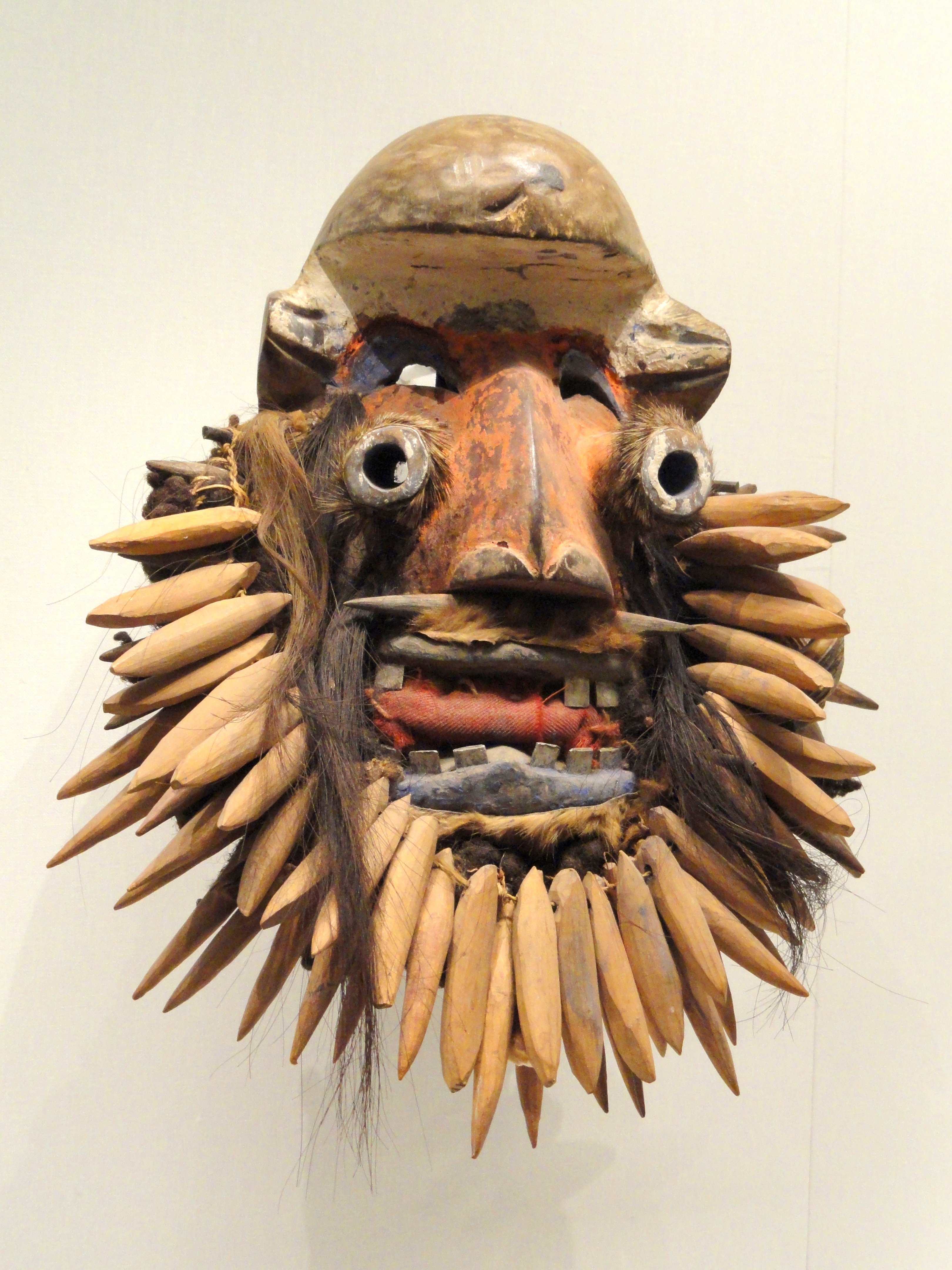 Exhibit in the Cleveland Museum of Art, Cleveland, Ohio, USA. This artwork is old enough so that it is in the public domain.